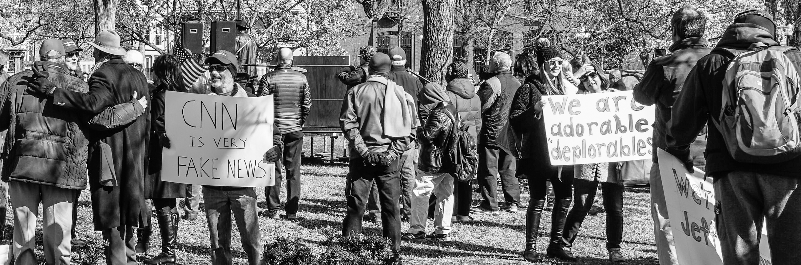 March 4 Trump rally in Washington, D.C.